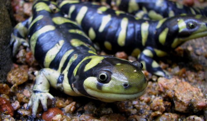 Ambystoma tigrinum (Tiger Salamander) in House of Sciences, Corunna - Spain